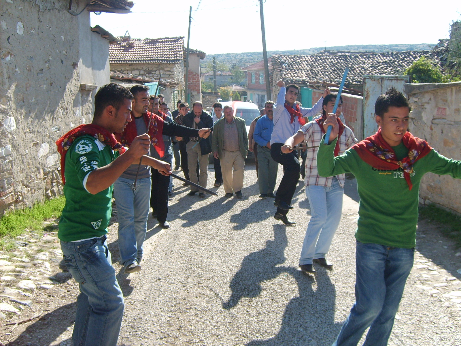 Wedding celebrations in Körez, Kula